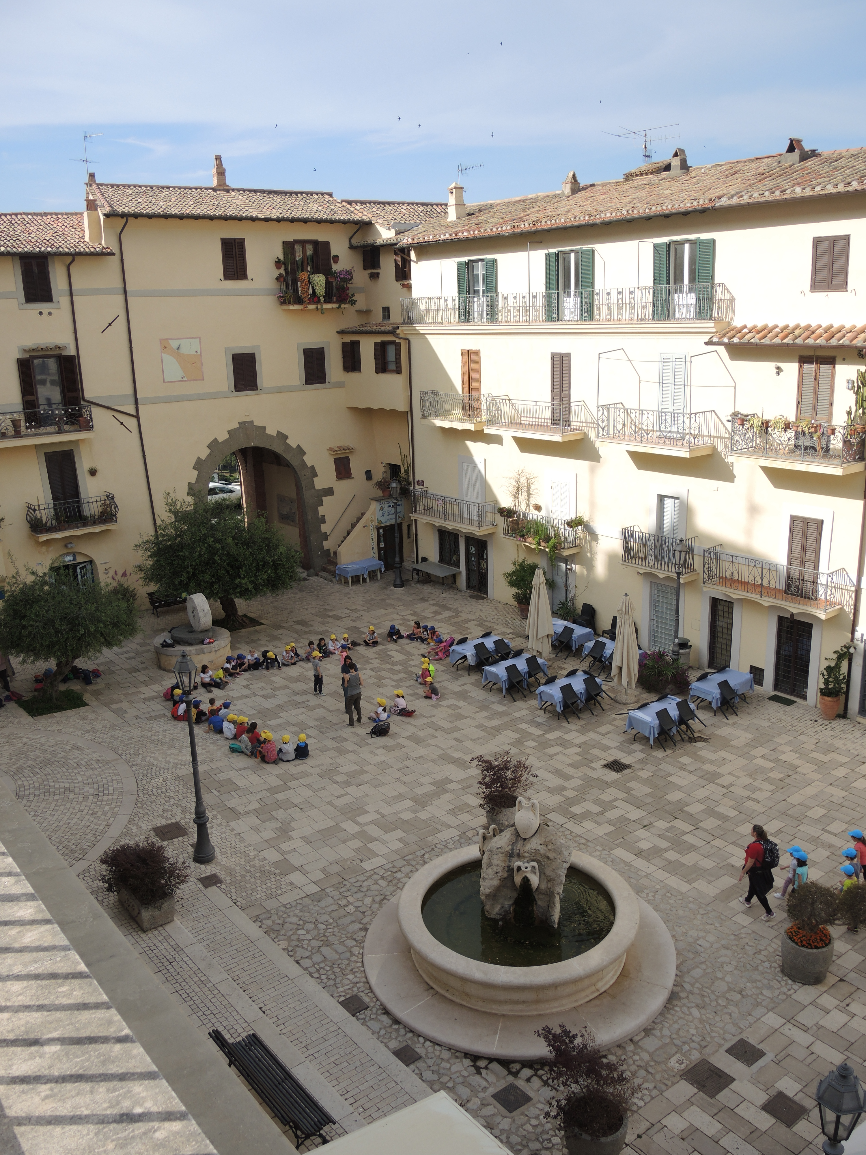 San Felice Circeo: Urban squares